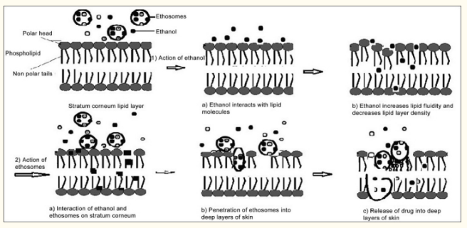 Ethosomes mechenism